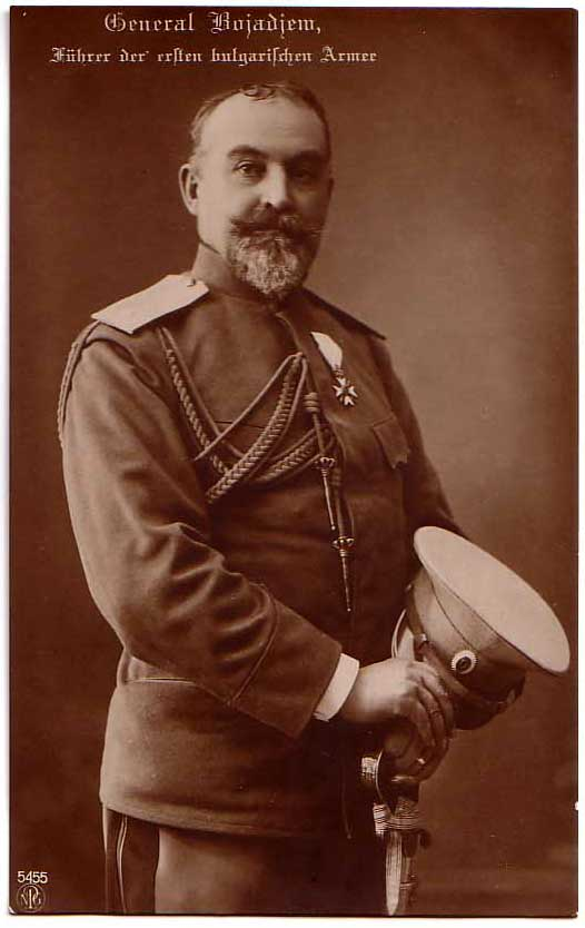 Bulgarian general and commander of the First army in World War 1